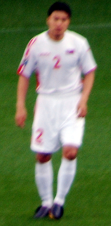 crop of Cha Jong-Hyok in the Portugal - North Korea game. Levels adjusted. Sharpened.